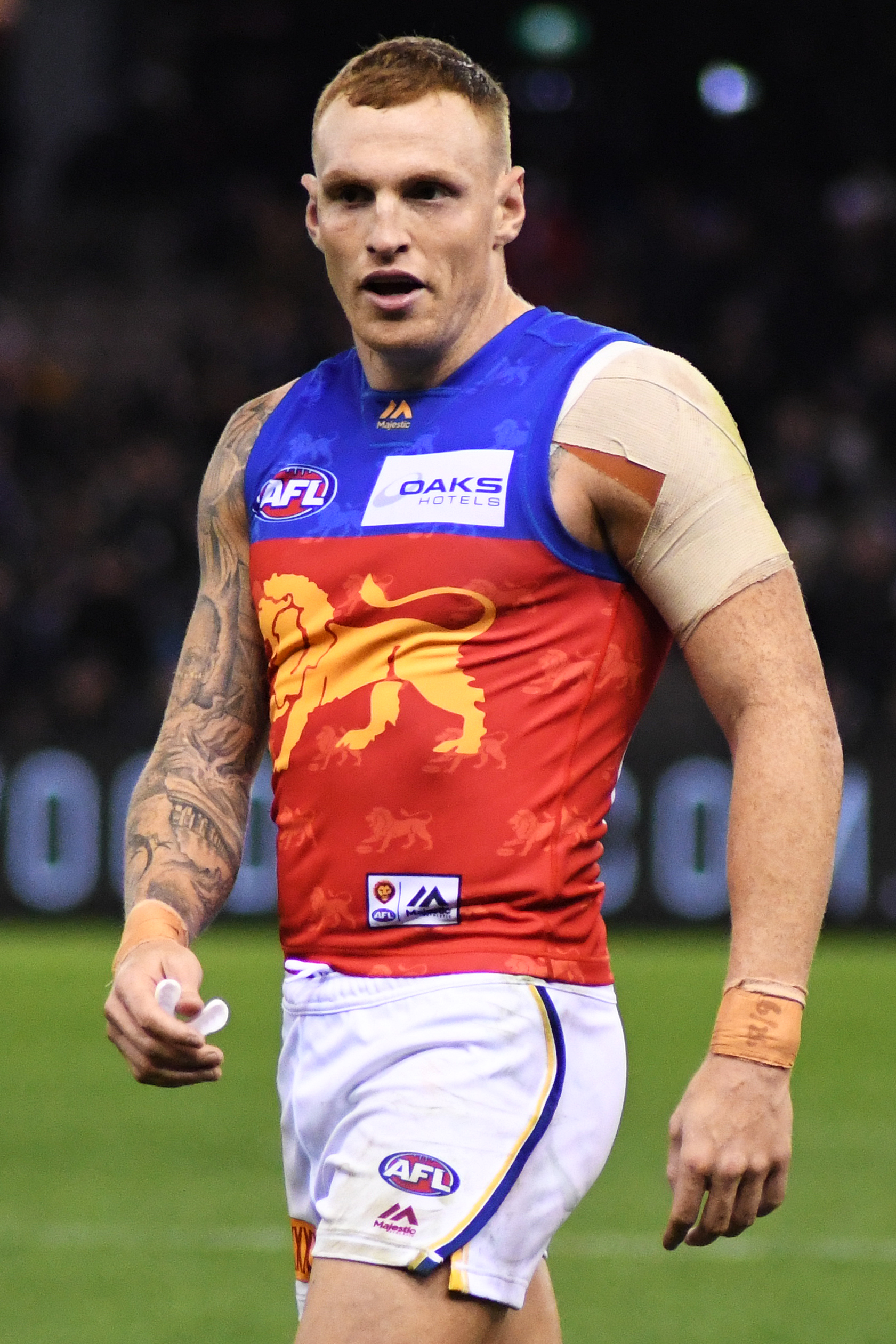 Mitch Robinson of Brisbane during the 2018 AFL round 21 match between Collingwood and Brisbane at Etihad Stadium on Saturday, 11 August 2018 in Melbourne, Victoria.